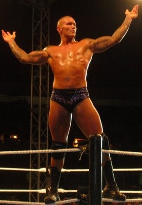 Orton still does the pose